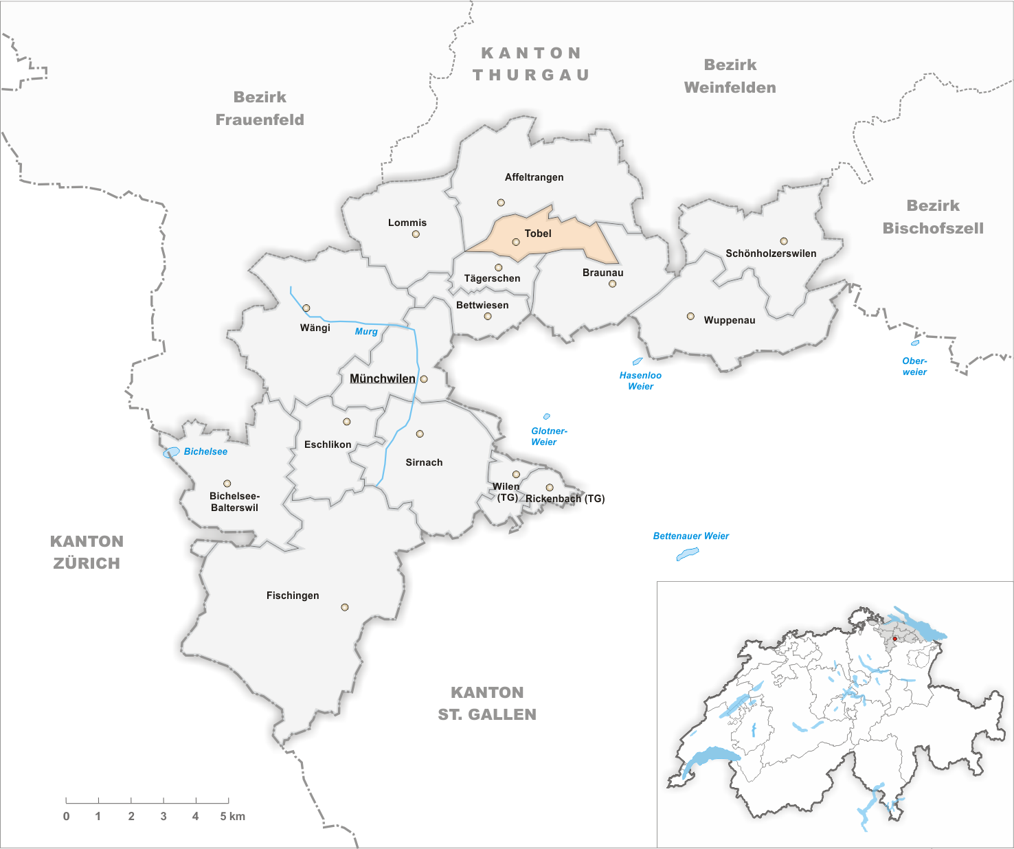 Municipality Tobel